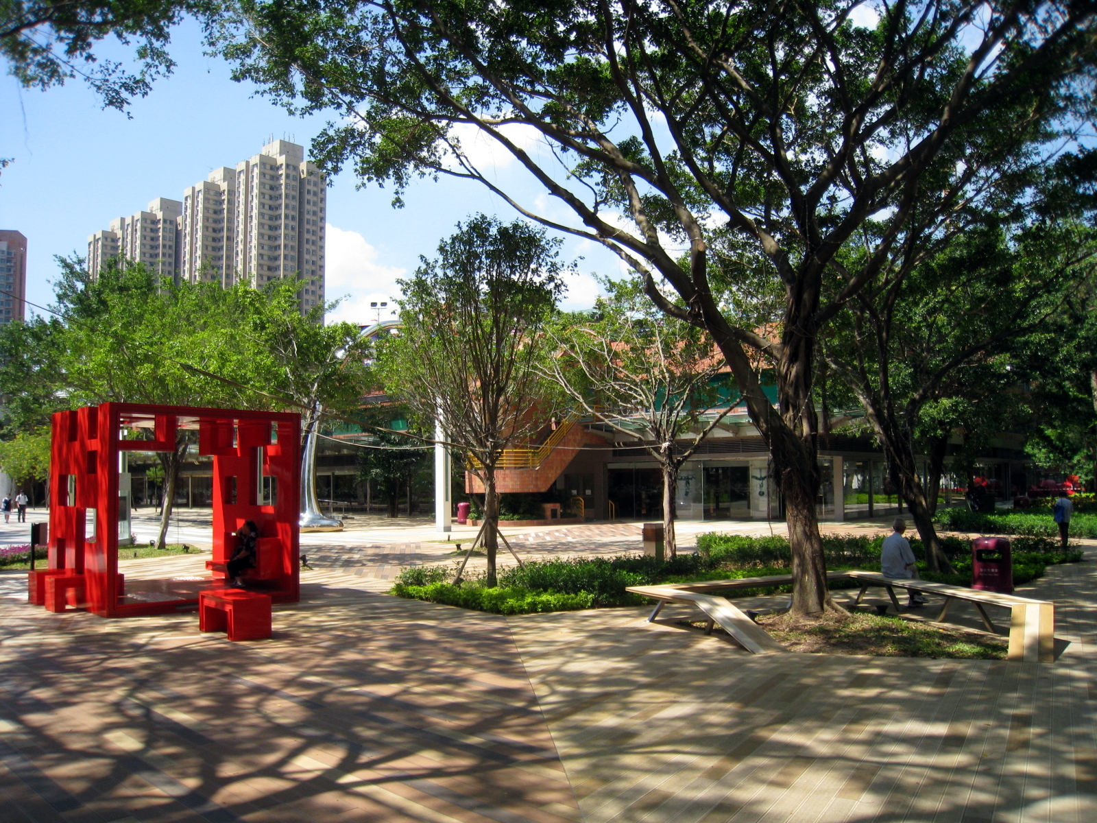 City Art Square Area 6 城市藝坊第六區